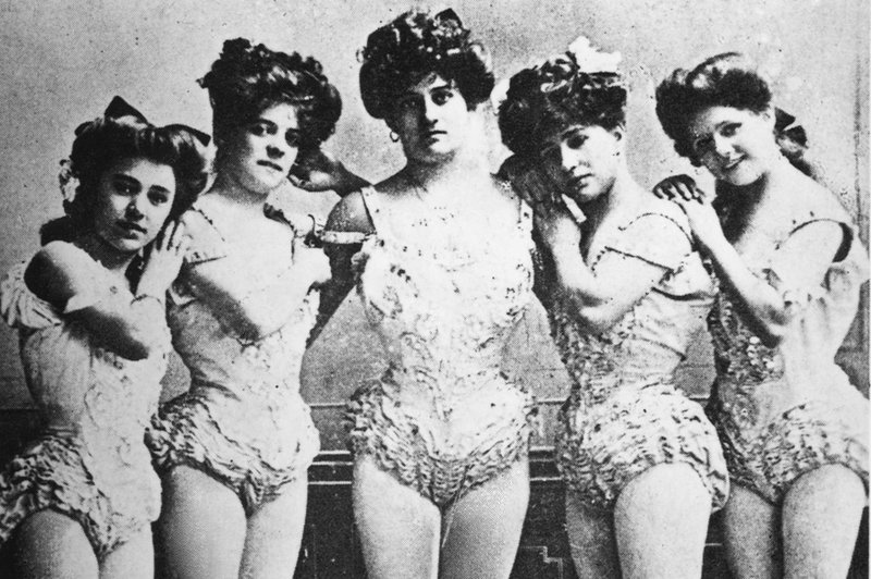 Aerialist Lillian Leitzel at left. In 1905, she toured Europe in the Leamy Ladies, which was her, her aunts Tina and Toni Pelikan, her mother Nellie Pelikan, and Lily Simpson. pic from Dean Jensen's collection